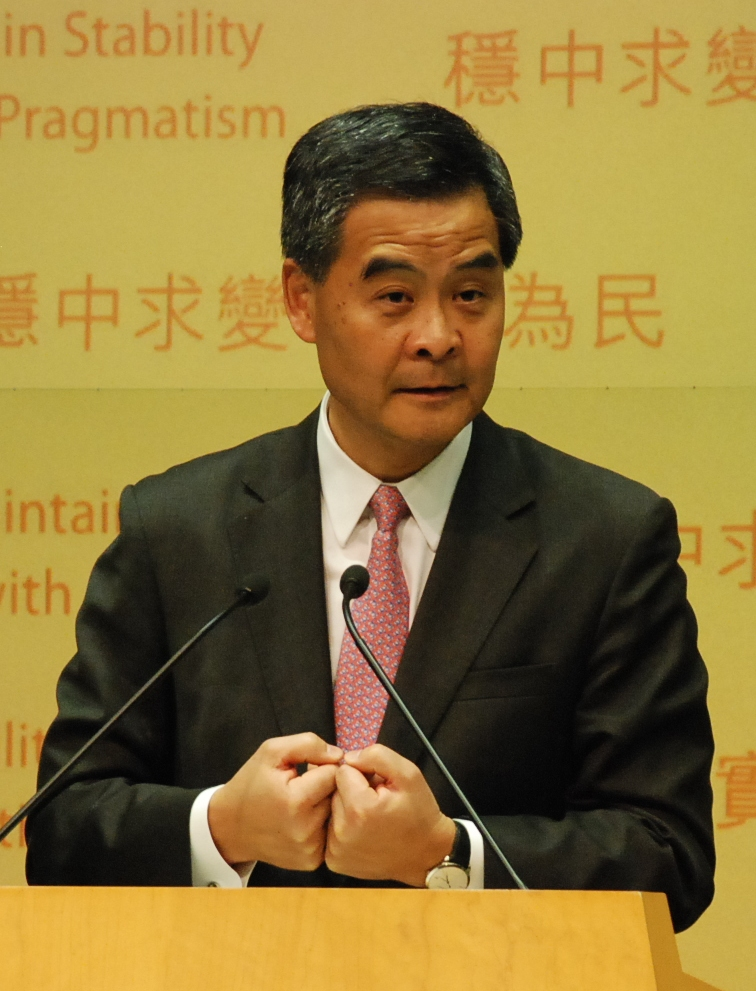 Hong Kong Chief Executive CY Leung speaking to the press on the 2013 Policy Address.